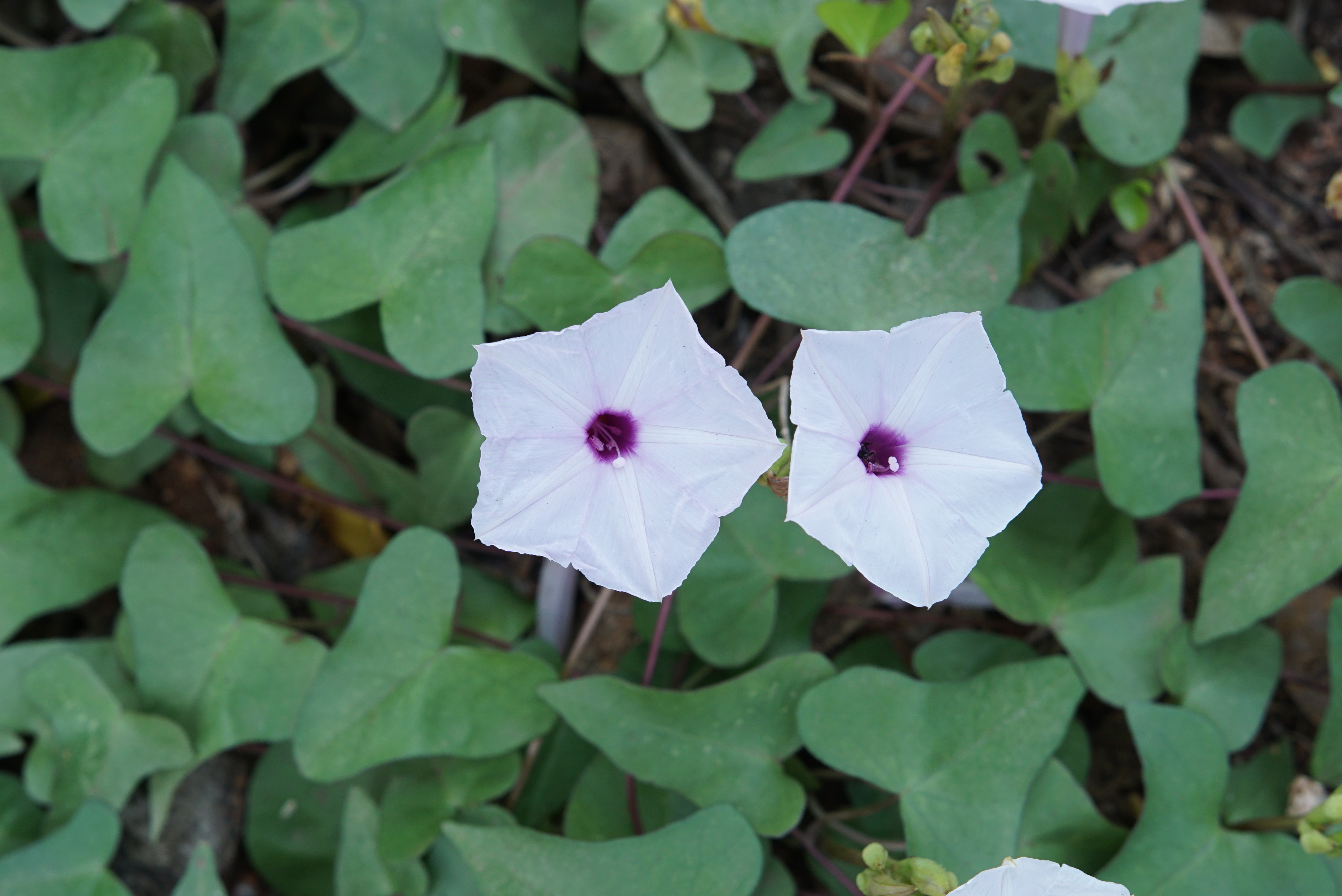 Morning glory ( Ipomoea marginata ) . Taken at Kozhikode, Kerala, India.